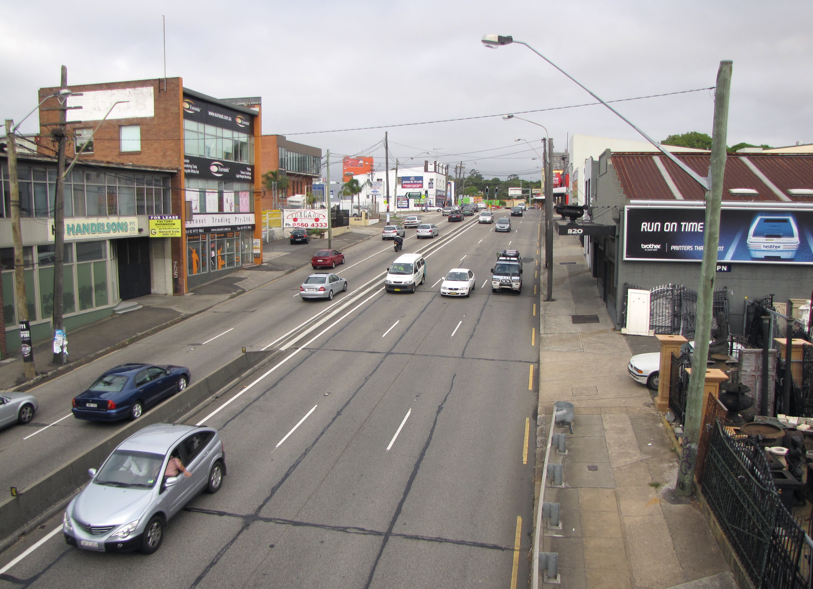 Parramatta Road at Leichhardt.